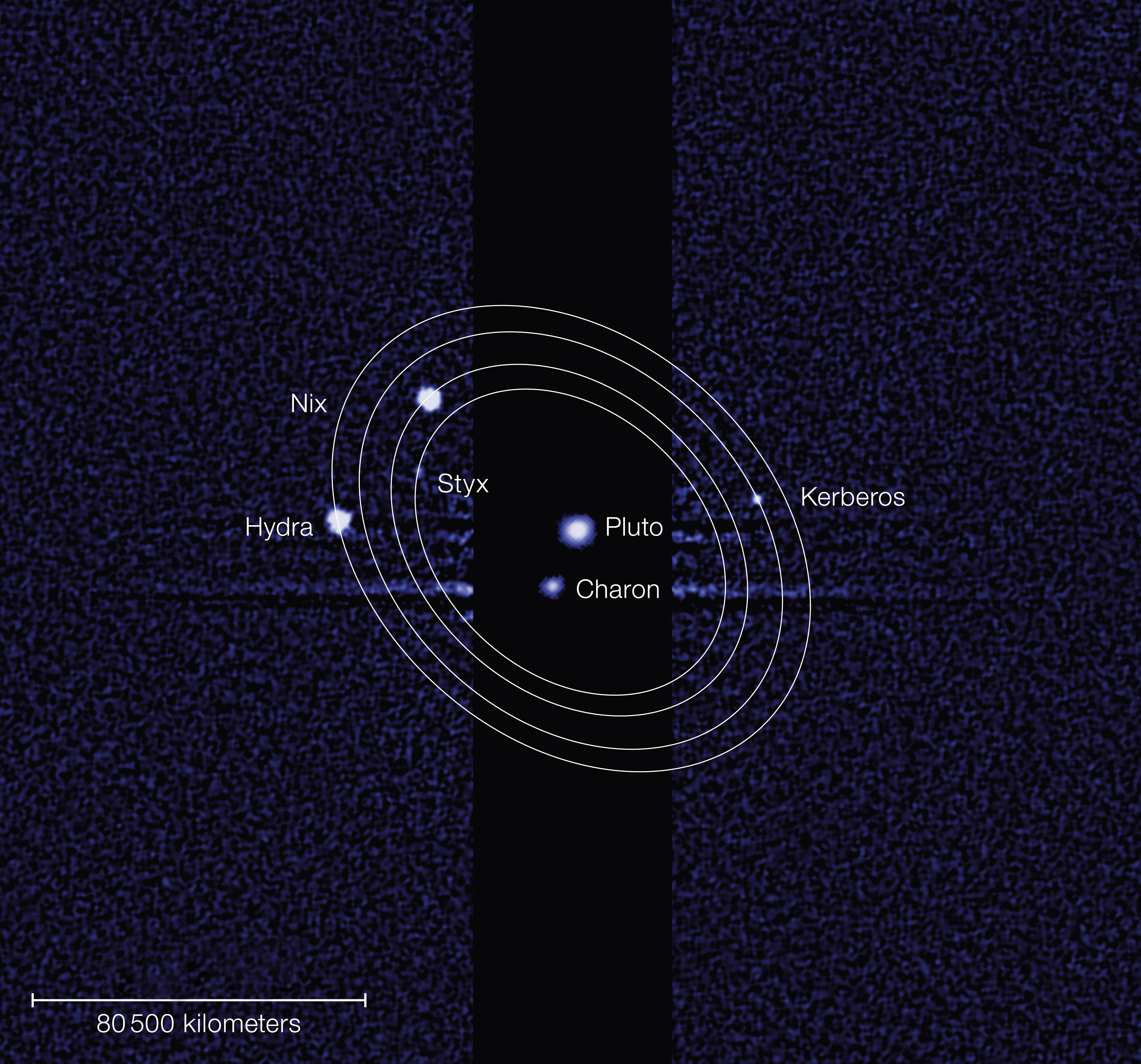 This discovery image, taken by the NASA/ESA Hubble Space Telescope, shows five moons orbiting the distant, icy dwarf planet Pluto. The darker stripe in the centre of the image is because the picture is constructed from a long exposure designed to capture the comparatively faint satellites of Nix, Hydra, Kerberos and Styx, and a shorter exposure to capture Pluto and Charon, which are much brighter. Kerberos has an estimated diameter of 13 to 34 kilometres, and Styx is thought to be irregular in shape and 10 to 25 kilometres across.